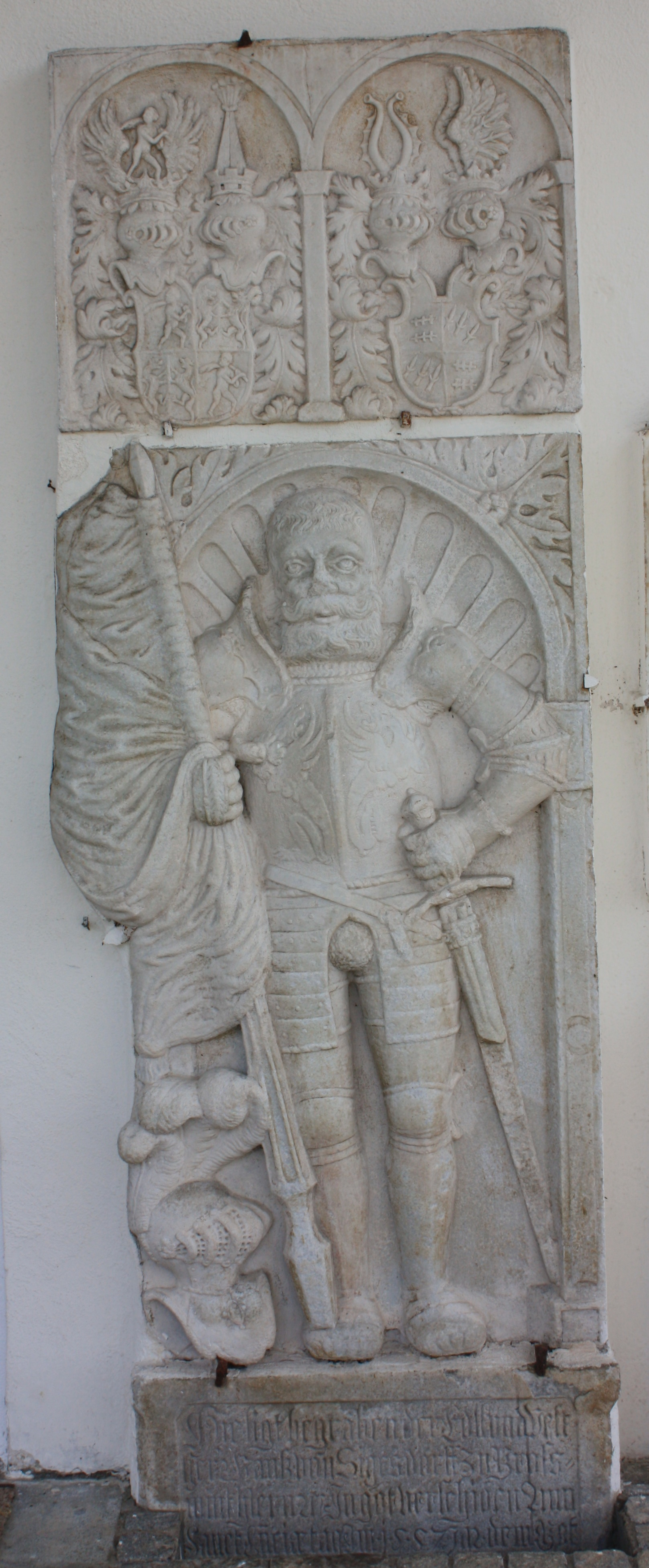 Subsidiary church "Saint John the Baptist" - Epitaph Locality: Sankt Johann Community:Wolfsberg